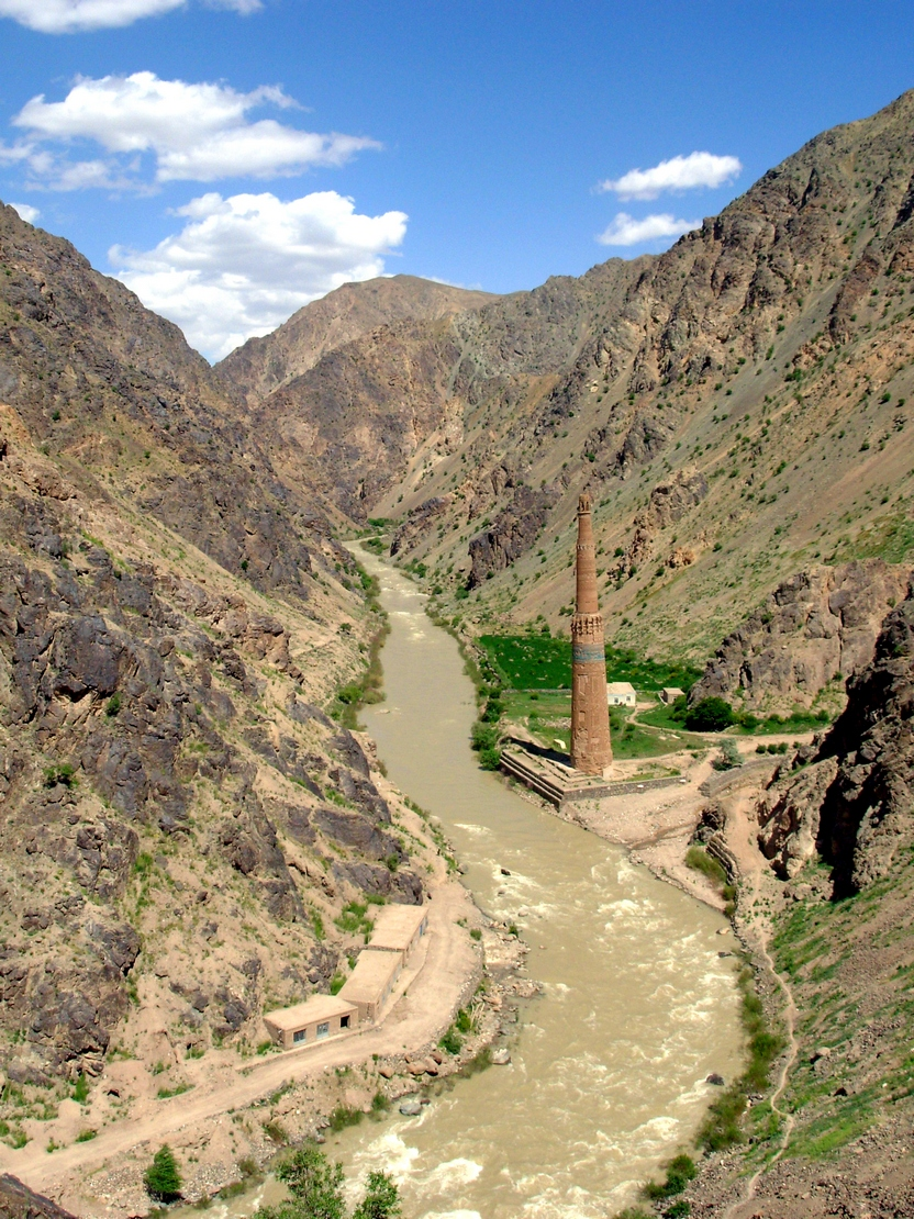 Minaret_of _Jam_Ghor_Afghanistan